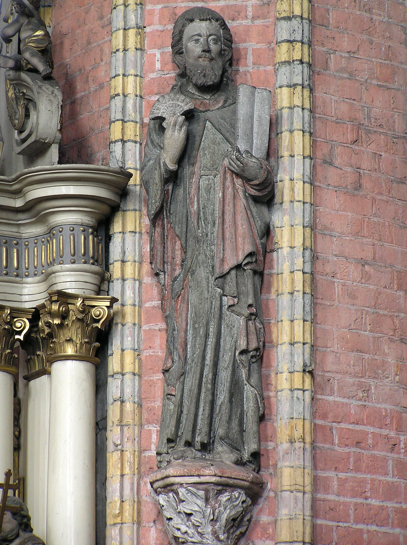 Chełmno, Blessed Virgin Mary church, statue of St. James the Great